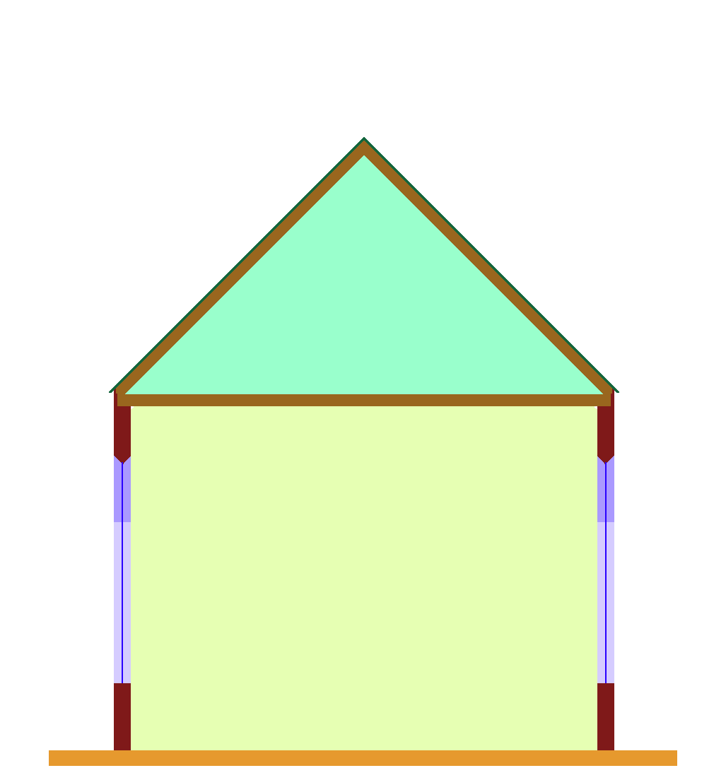 Scheme of an aisleless church, here with a horizontal ceiling